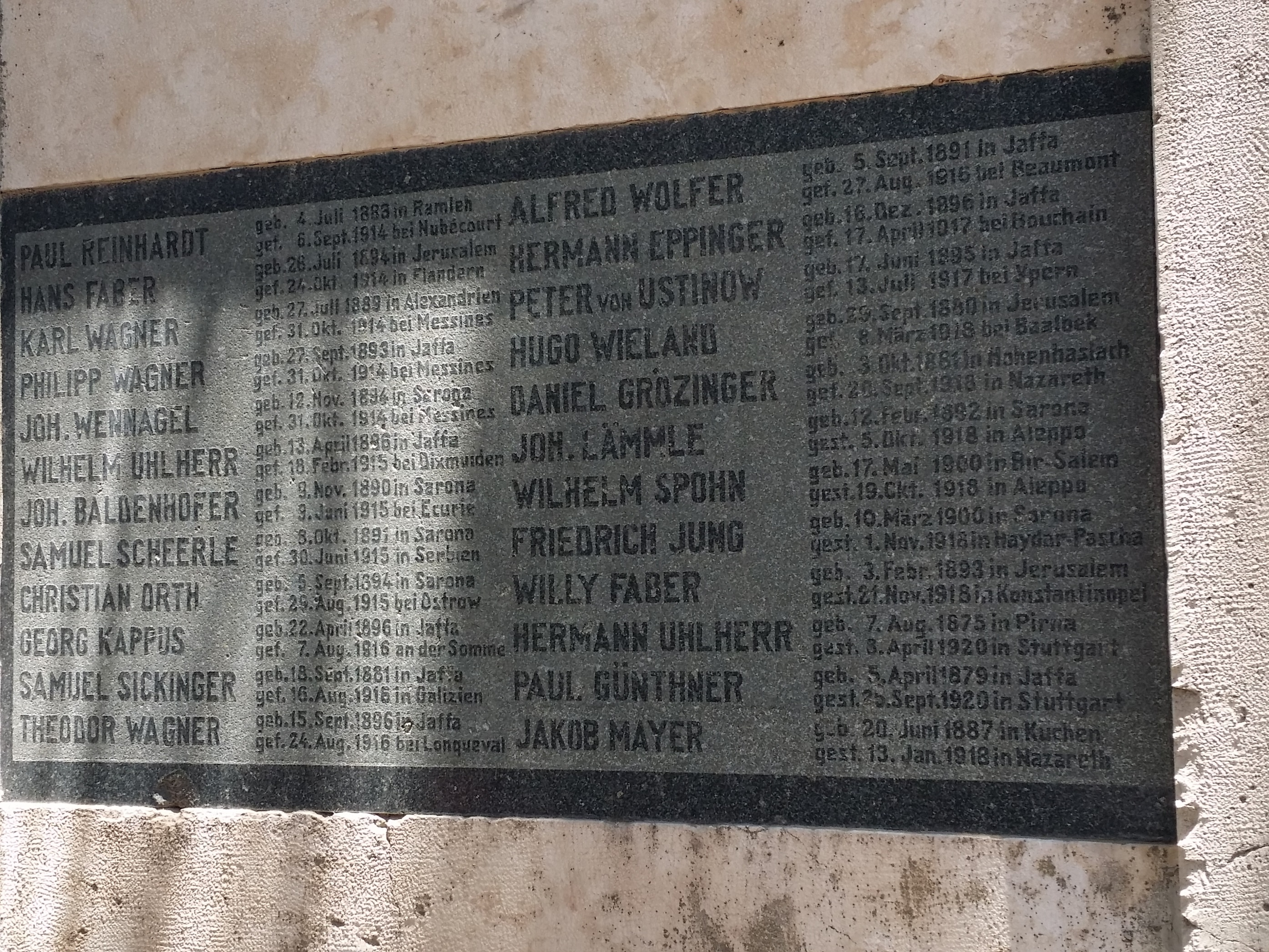 Jerusalem German Colony